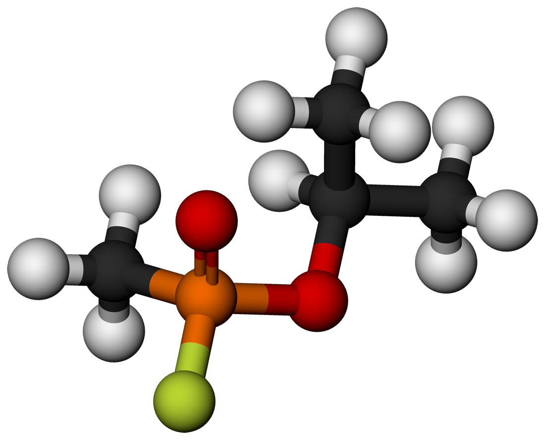 Sarin 3D balls